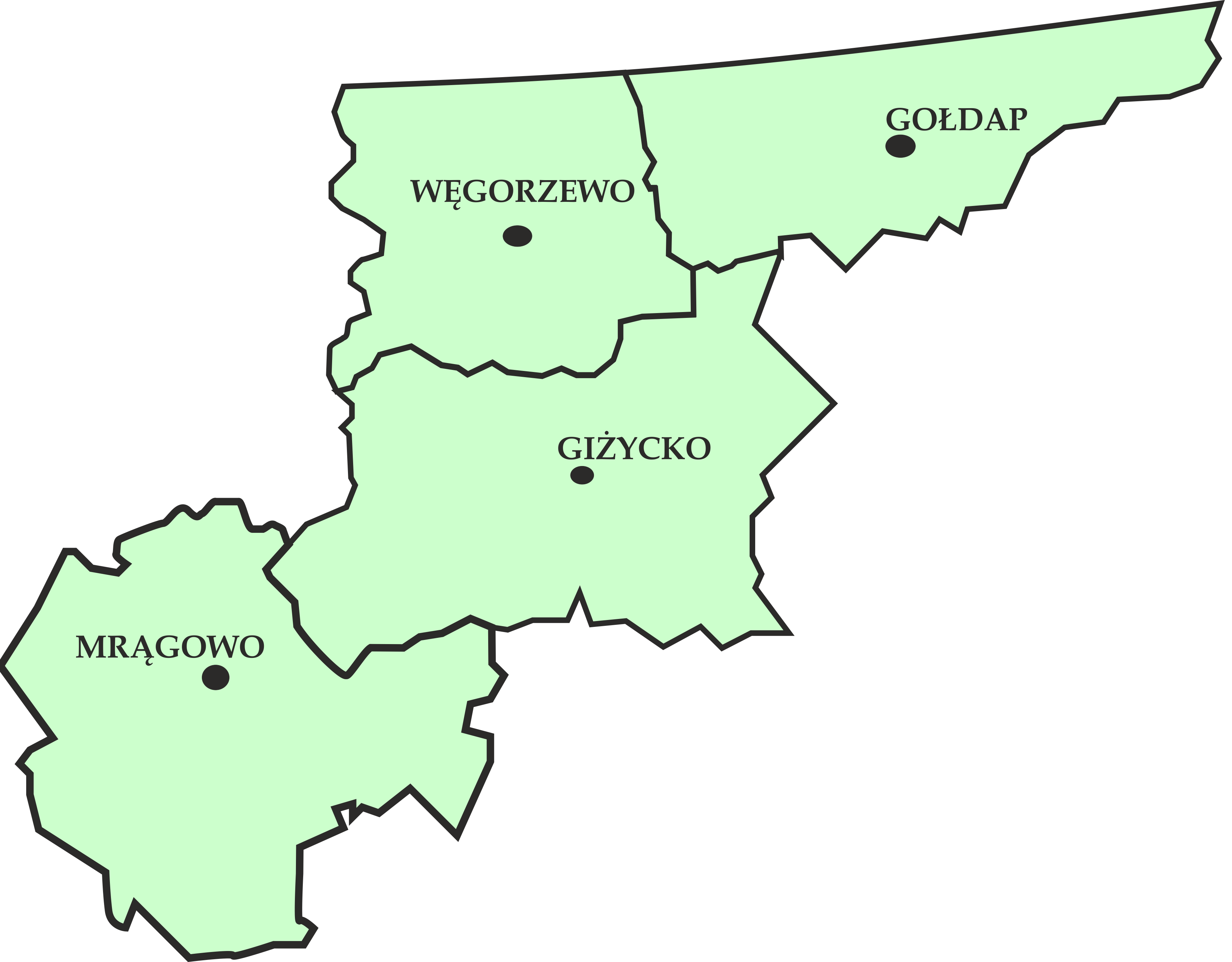 Obszar działania WKU Giżycko